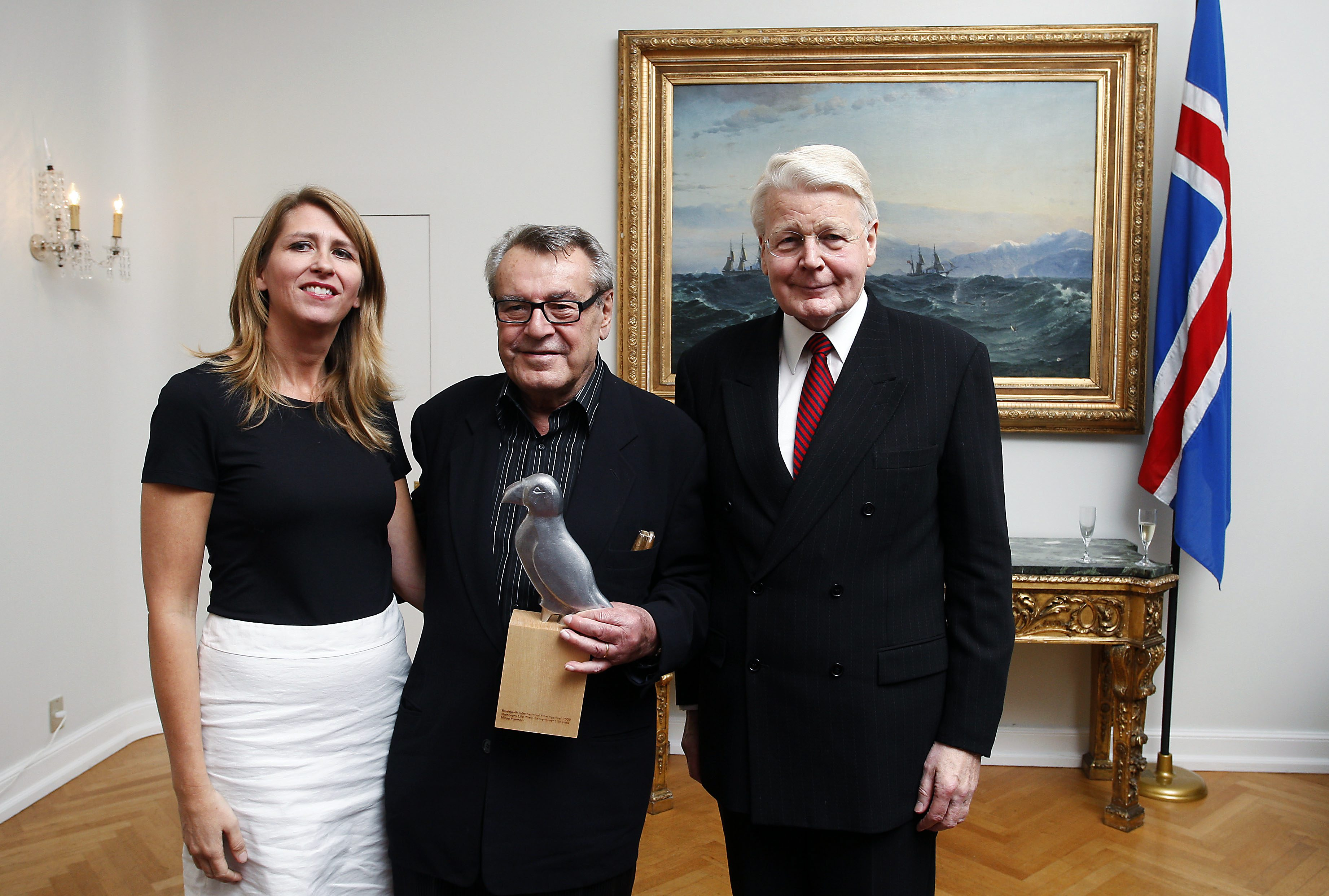 Reykjavík International Film Festival (RIFF), 2009. Honorary life-time achievement award for director Miloš Forman. From left to right: Hrönn Marinósdóttir, festival director; Miloš Forman; Ólafur Ragnar Grímsson, President of Iceland. Photo taken at Bessastaðir, the Presidential Residence.